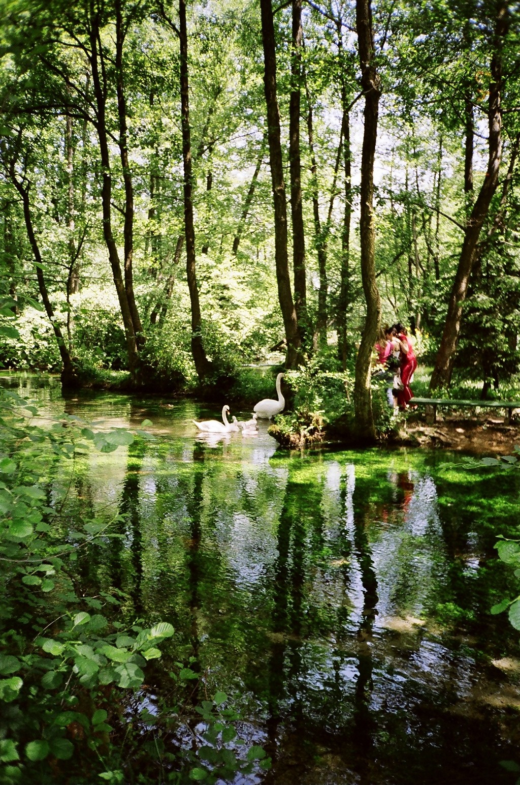 Vrelo Bosne